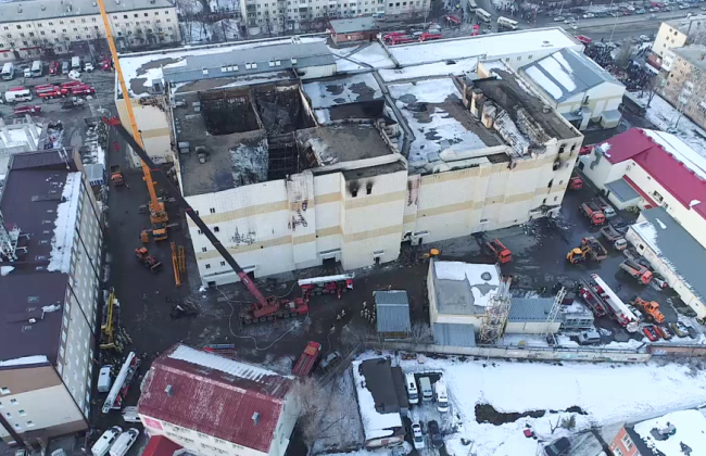 An aerial view of the fire-damaged Zimnyaya Vishnya complex on March 26, 2018 in Kemerovo, Russia.